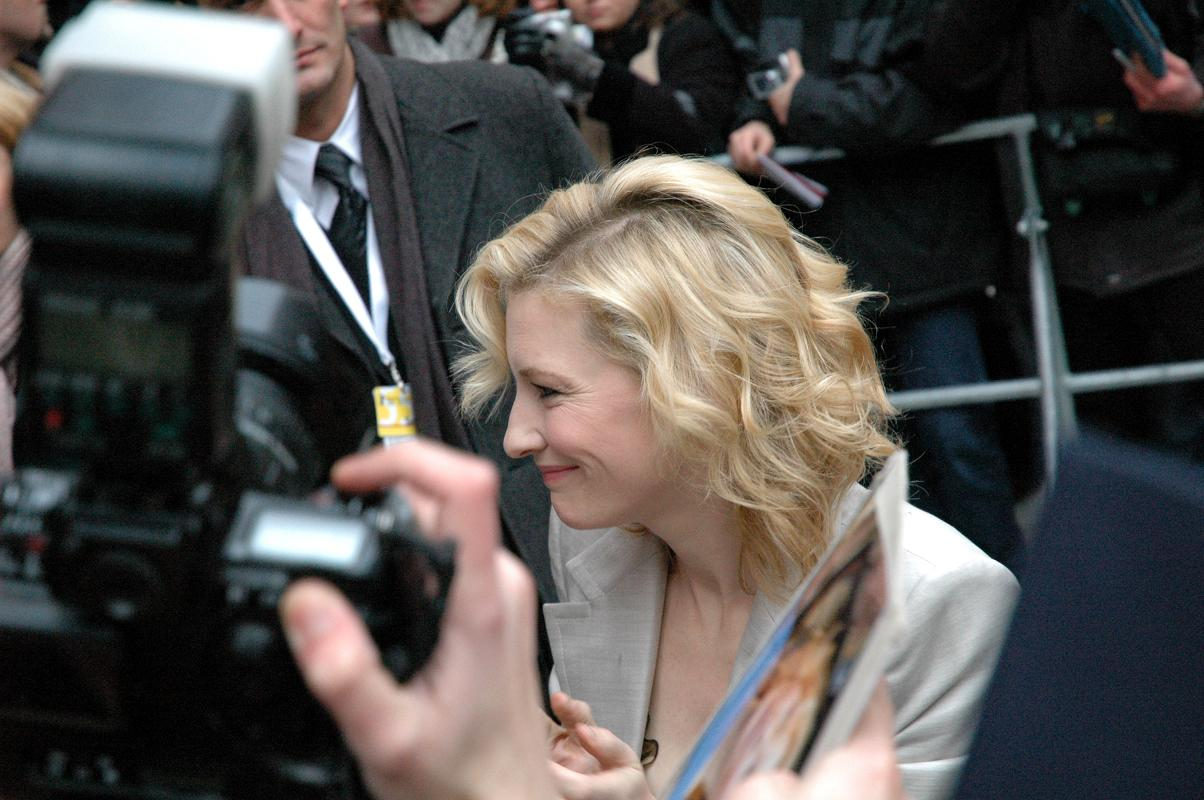 Actress Cate Blanchett at the Berline filmfestivale in 2005.